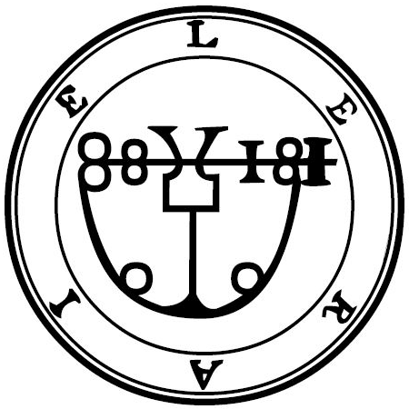 Leraie seal, THE BOOK OF THE GOETIA OF SOLOMON THE KING (1904)